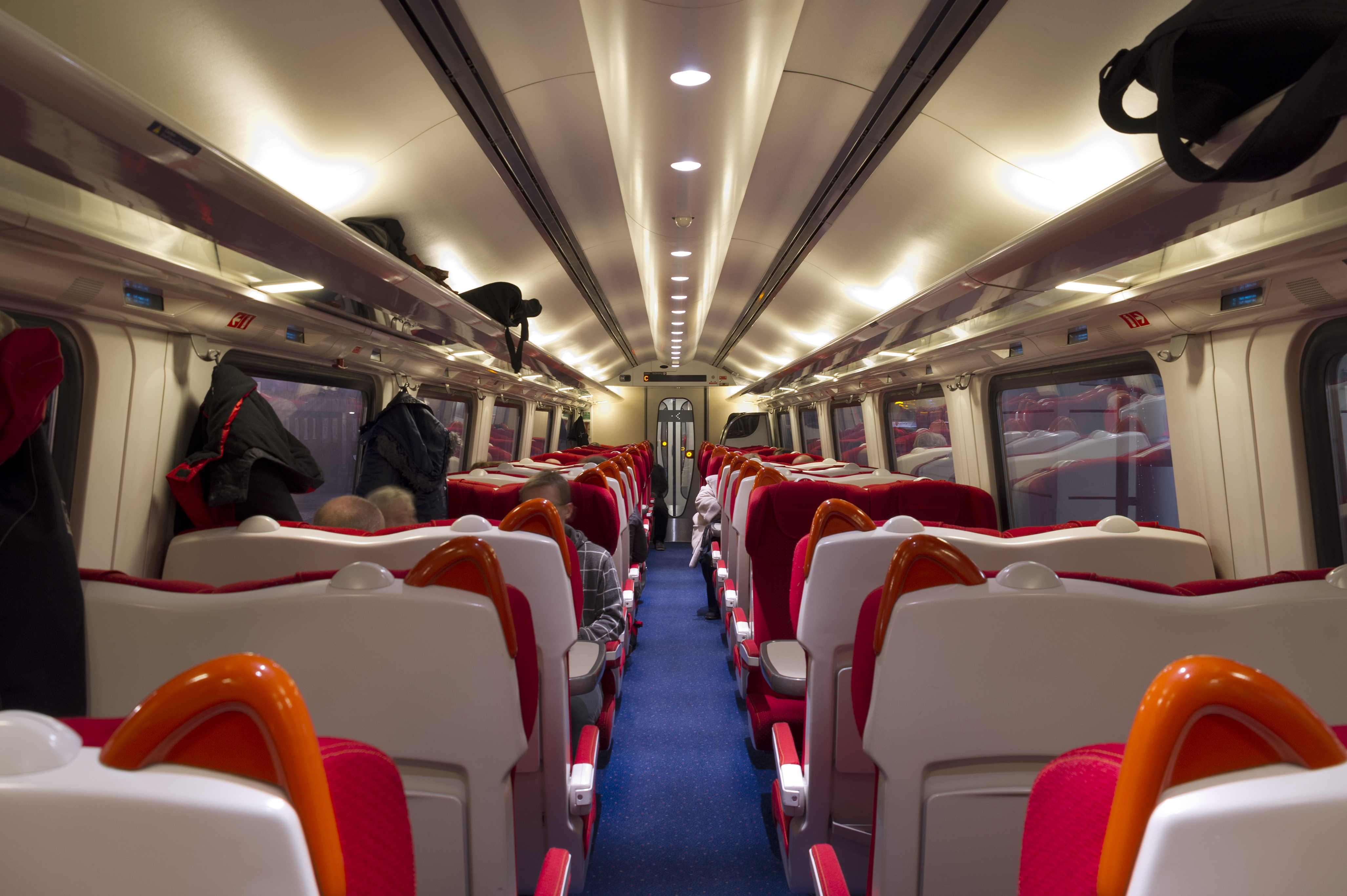 Interior of standard class on East Midlands Trains class 222 "Meridian" DEMU 222018, forming the delayed 0720ish service from Derby to London St Pancras. So delayed that at 0733 we'd only just got on the train.